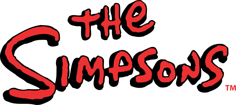 The Simpsons Logo